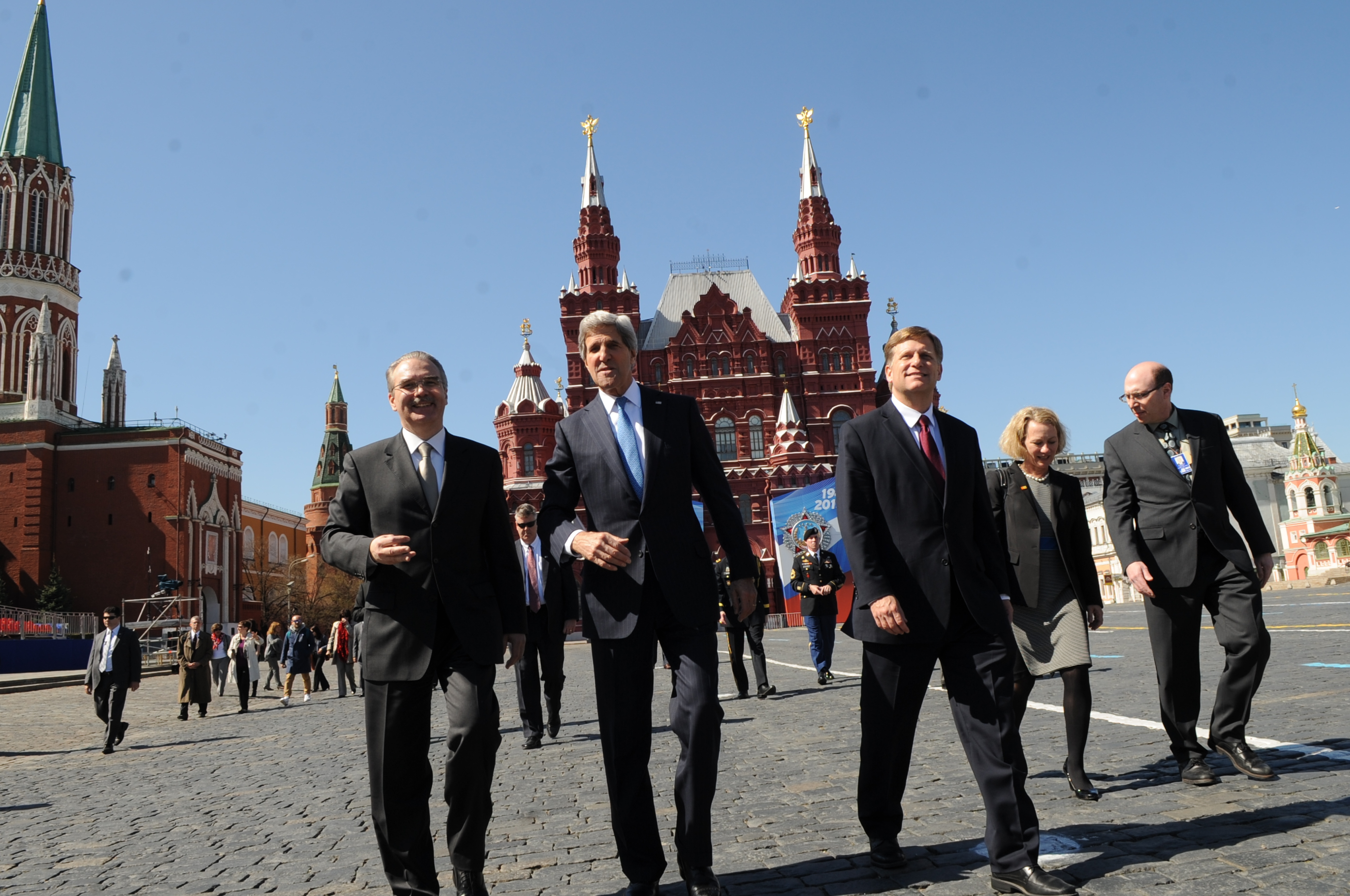 U.S. Secretary of State, accompanied by U.S Ambassador to Russia Michael McFaul (right) and Russian Chief of Protocol Yuriy Filatov (left), tours Red Square during his visit to Moscow on May 7, 2013 [State Department Photo/Public Domain]